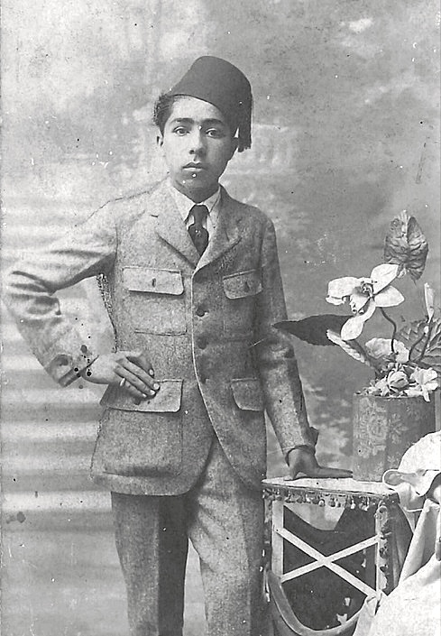 Mustafa Osman posing for the photographer G. Riva at his studio in Tunis in the 1920s